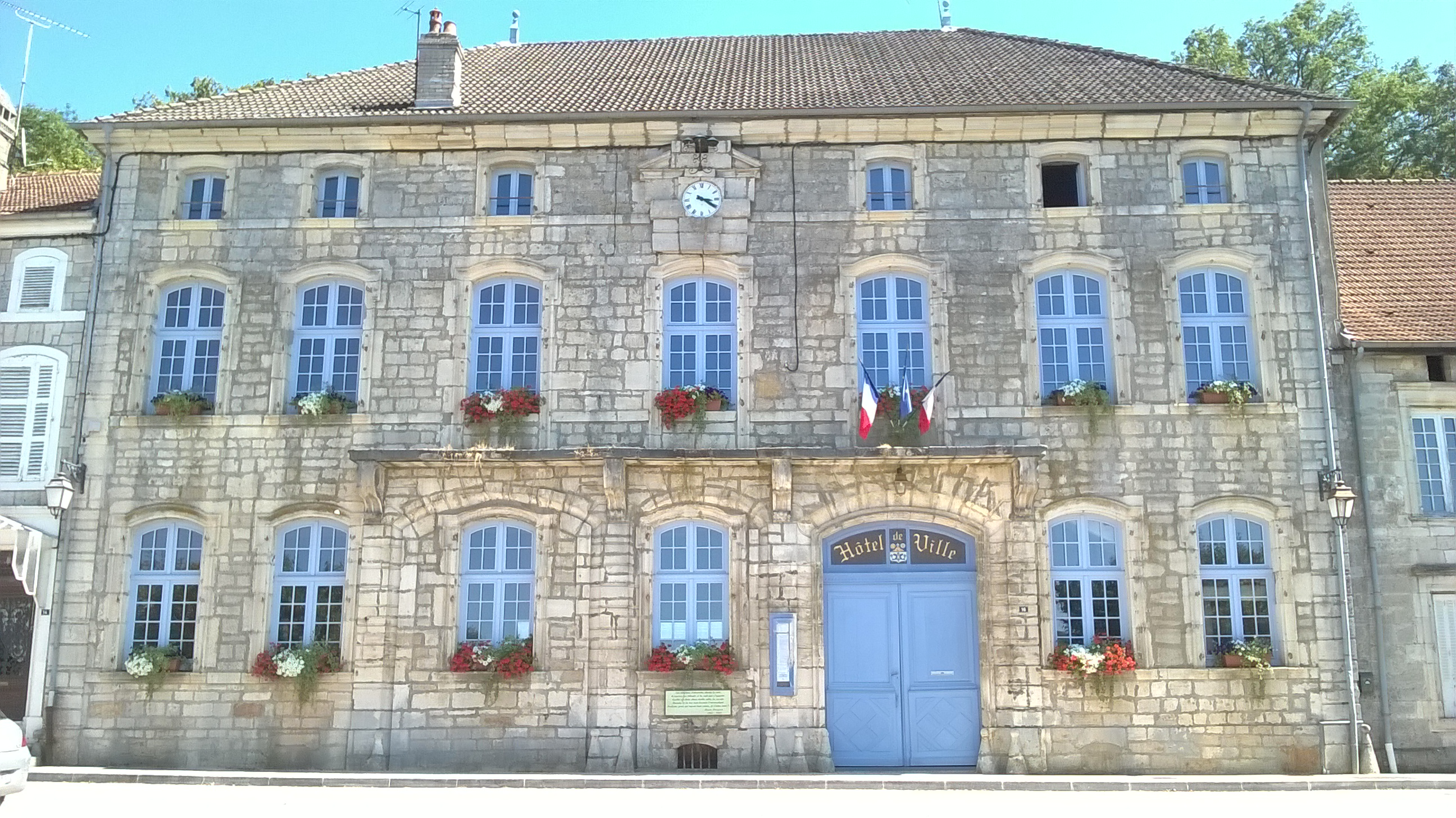 town hall of Bourmont, Haute-Marne, France.